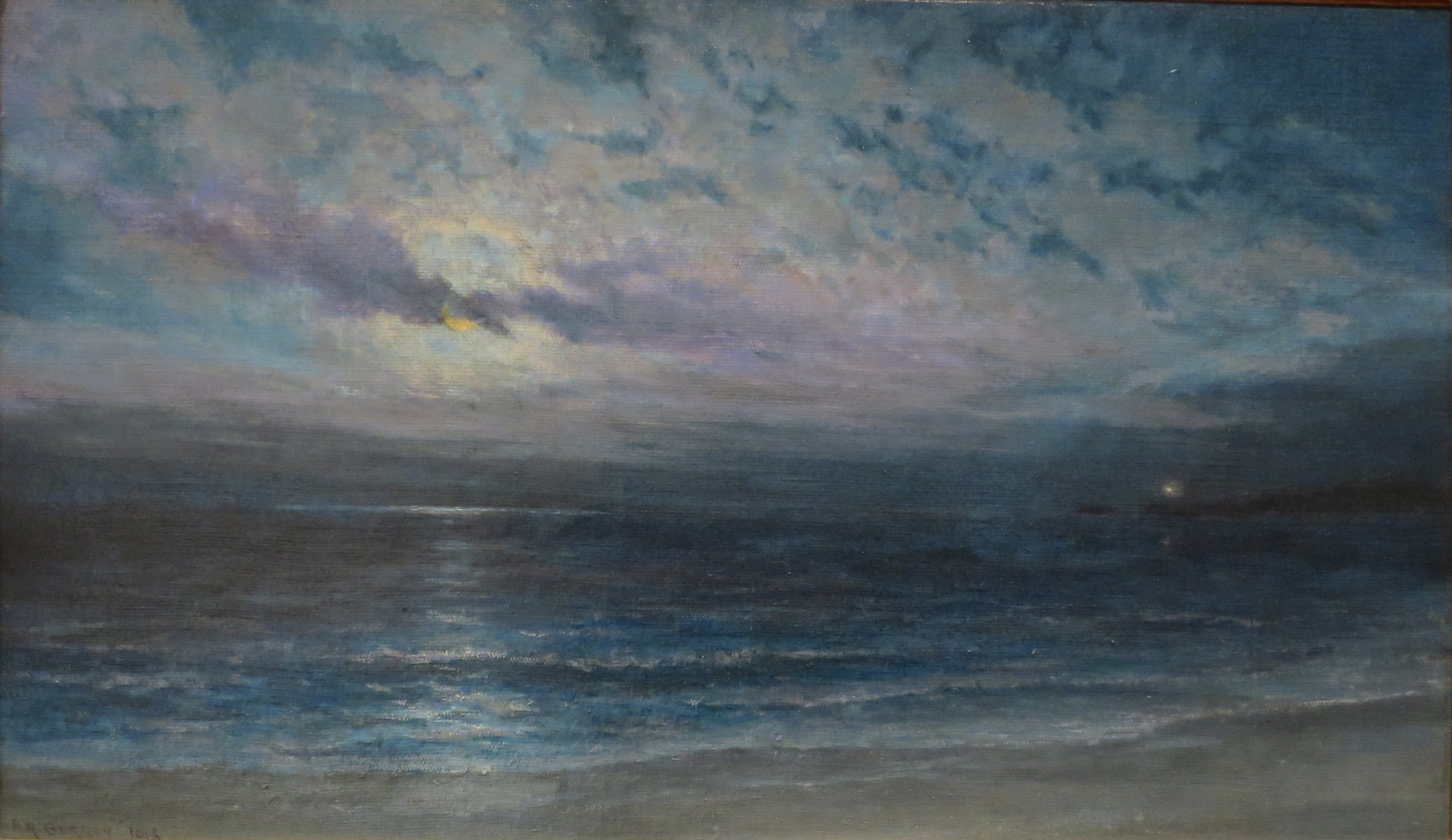 Moonlight on Ocean (Kauai) by Alfred Richard Gurrey, Sr. (1852-1944), c. 1918, oil on canvas, Hawaii State Art Museum.JPG